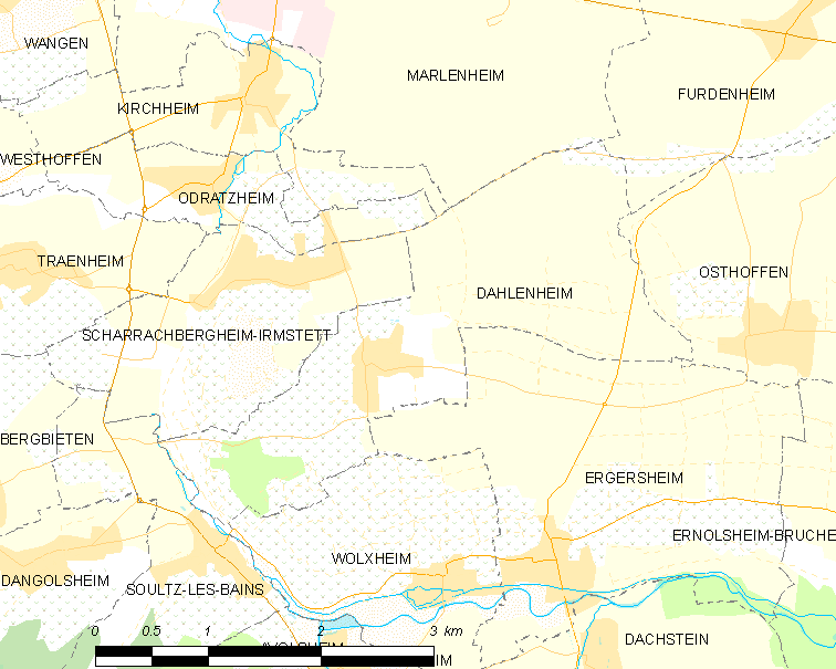 Map of French municipality